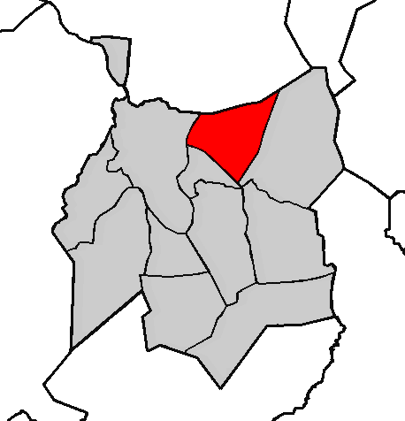 Location of the parish of Pravio in the municipality of Cambre (Galicia, Spain)